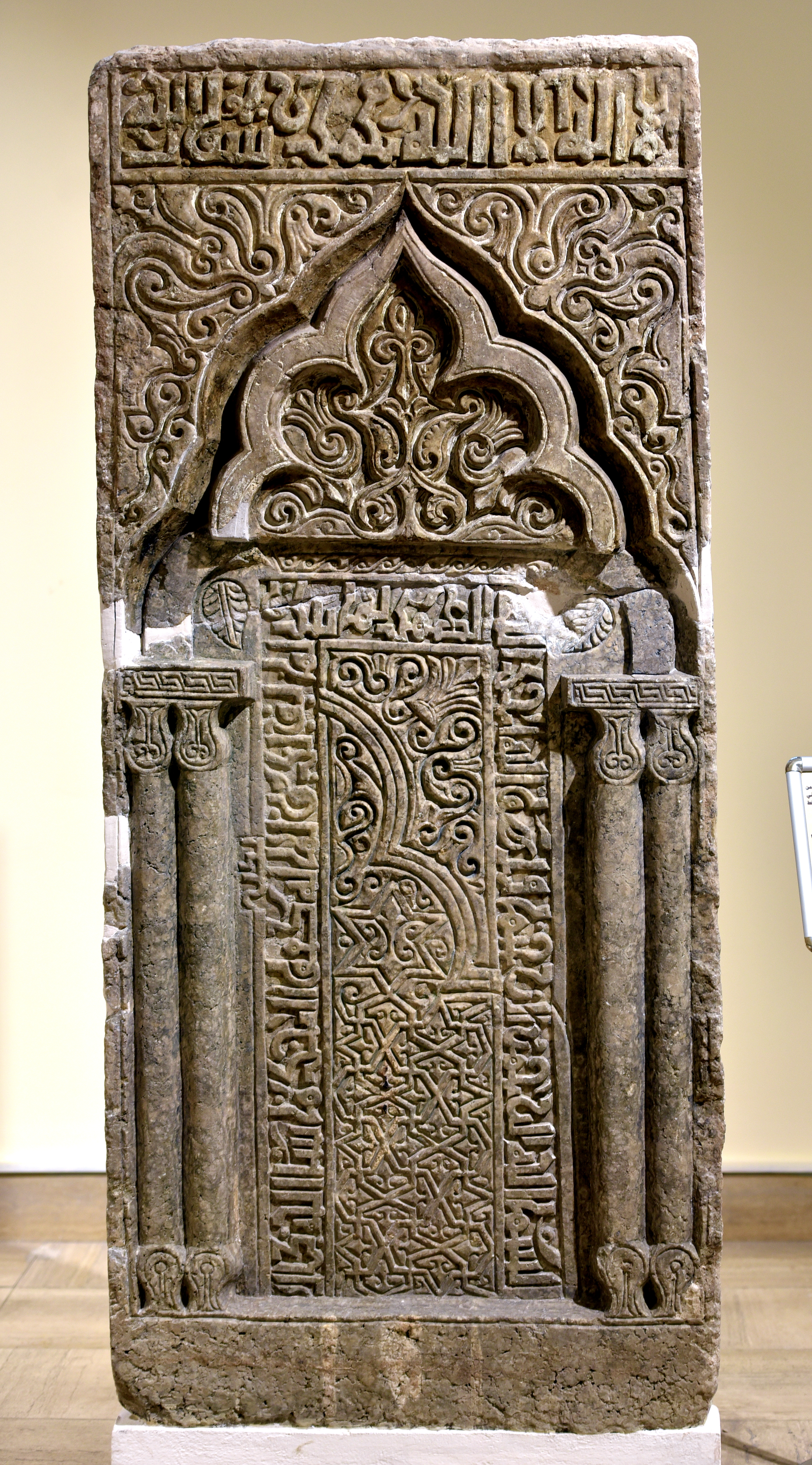 Mihrab of the shrine of Imam Abdulrahman in Mosul, Iraq. 2nd half of the 6th century AH (12th century CE). The mihrab is inscribed with an Arabic Kufic script. The upper part reads "There is no god but Allah, and Mohammad is his prophet" while the lower part was inscribed with ِAl-Masad surah. On display at the Iraq Museum in Baghdad.